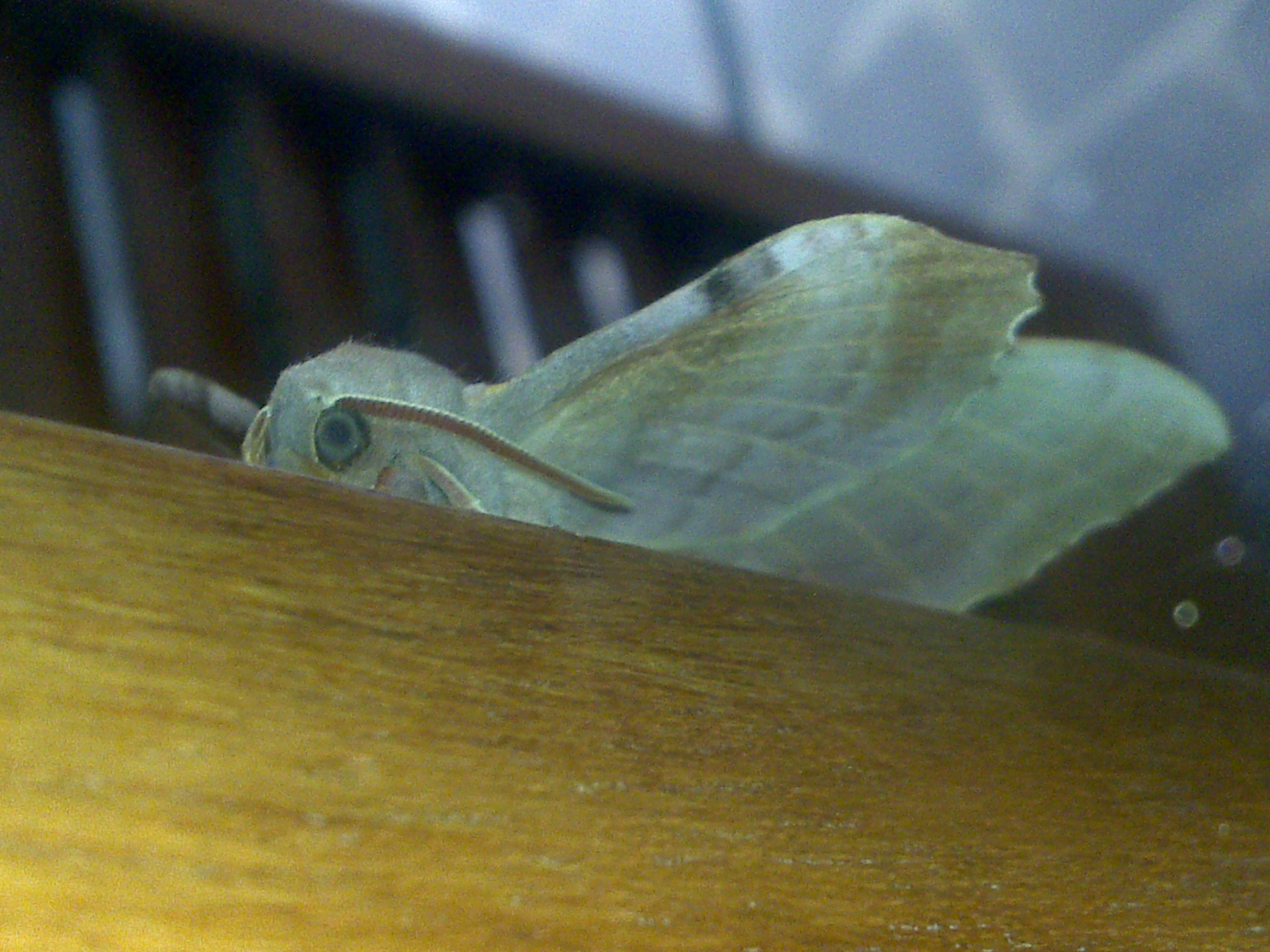 Poplar Hawk-moth on a window.